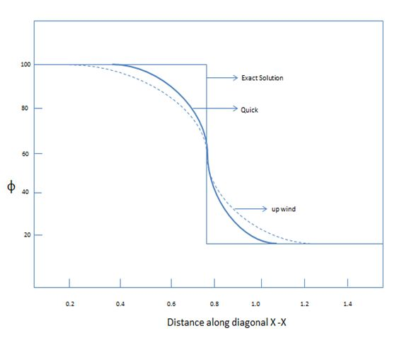 This graph compares the solutions of the QUICK scheme and UPWIND scheme in computational fluid dynamics.